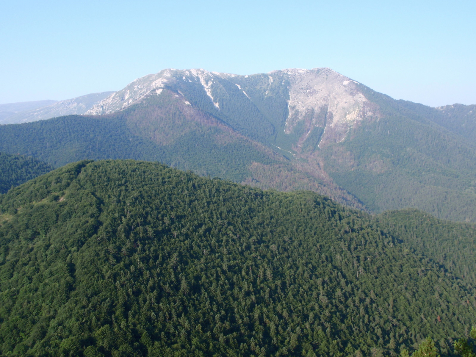 In the Voras mountains, Greece